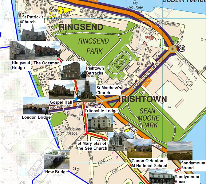 Map with monuments in Irishtown, Ringsend & Sandymount, Dublin City (Ireland)